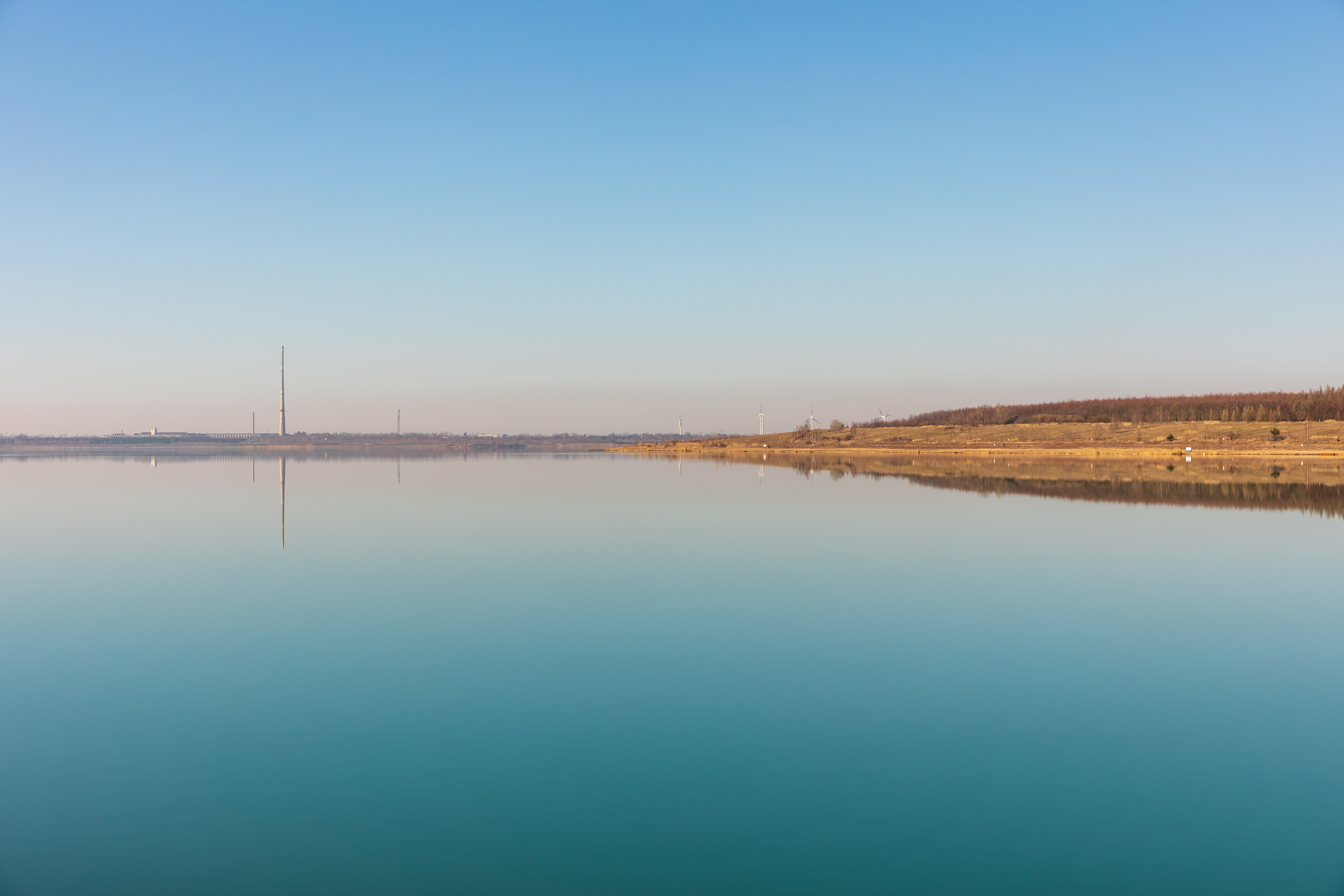 Lake Zwenkau near Leipzig as seen from Zwenkau harbour. It was a calm but somewhat hazy day. The reflection was nearly perfect. Couldn't resist to take some minimalist shots.